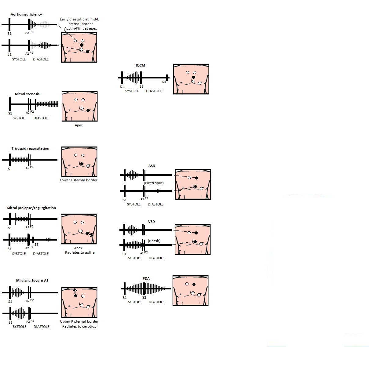 Murmurs of common heart conditions